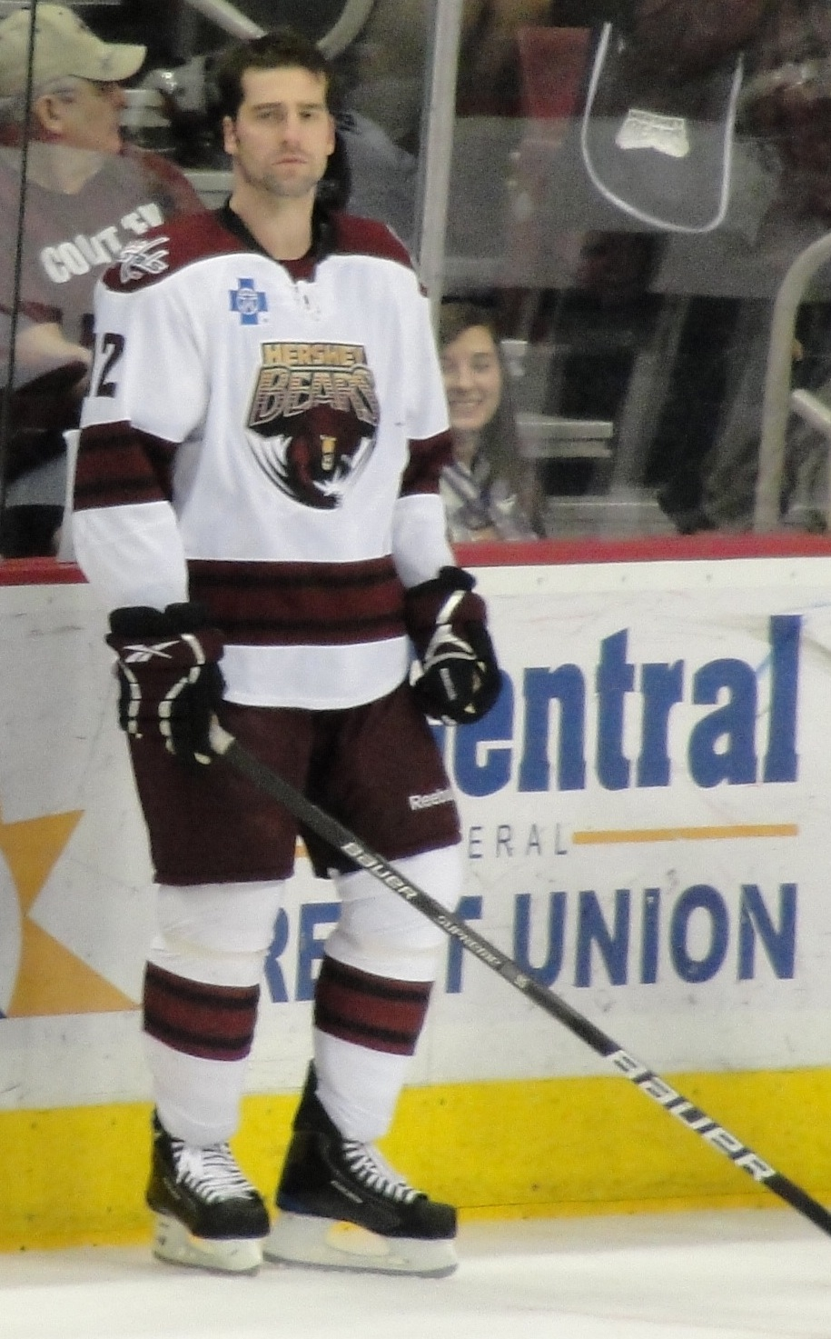 photo taken of Alex Giroux at Giant Center Hershey PA during warm-ups on February 20 2010